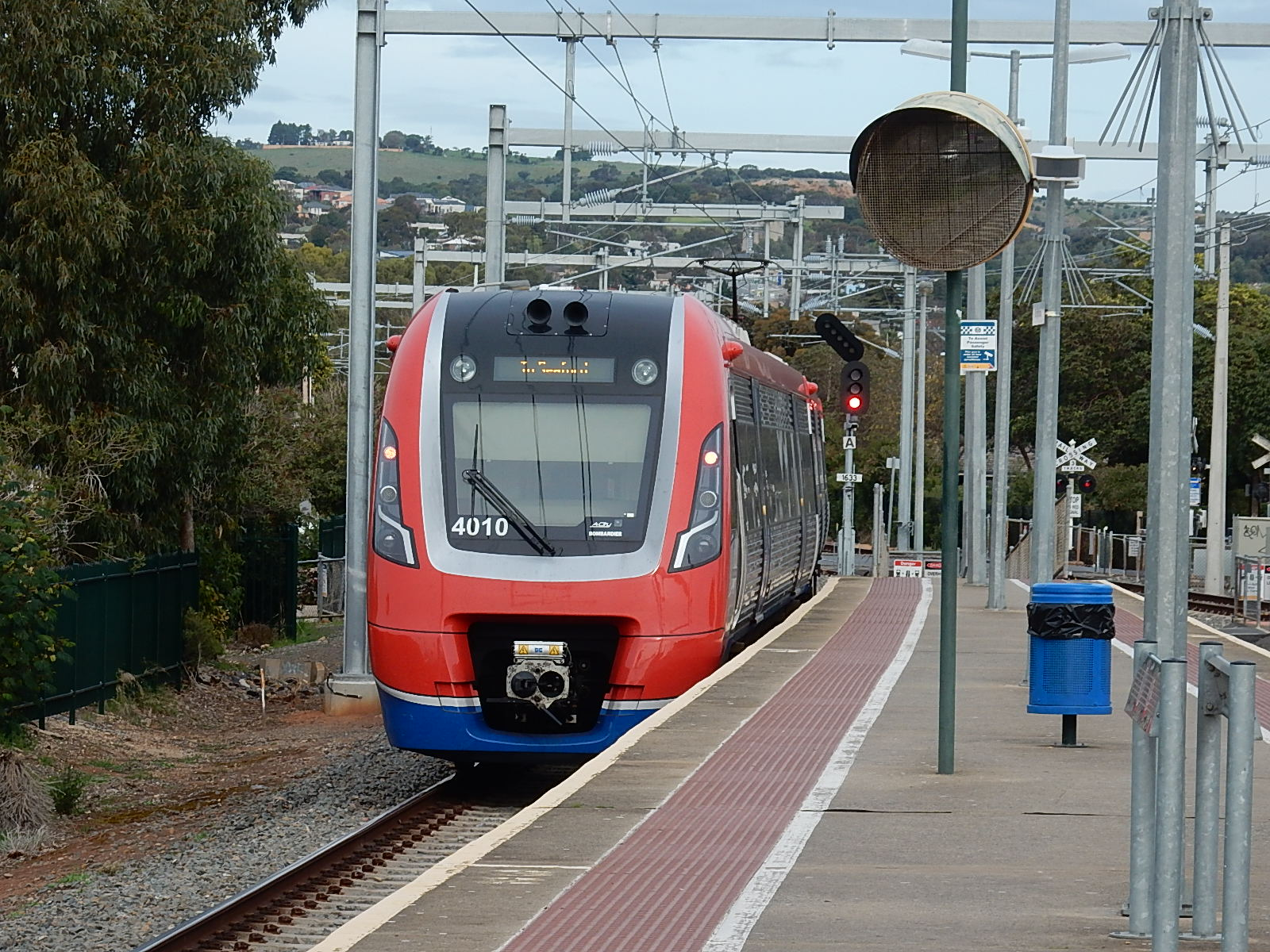 A-City EMU at Brighton station